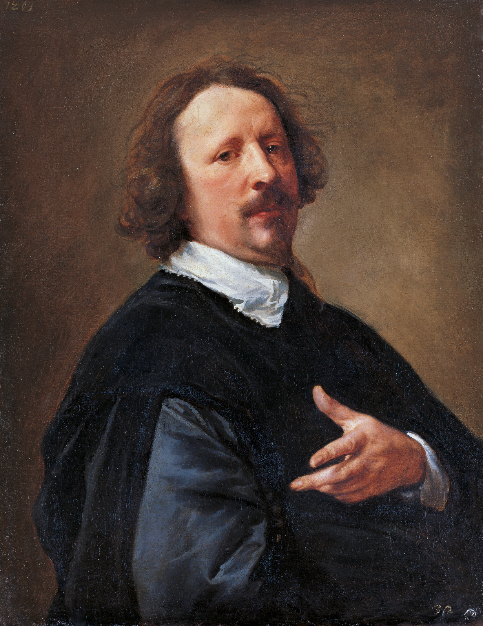 Portrait of the painter Caspar de Crayer (1584 - 1669)label QS:Lde,"Bildnis des Malers Caspar de Crayer (1584 - 1669)"label QS:Len,"Portrait of the painter Caspar de Crayer (1584 - 1669)"